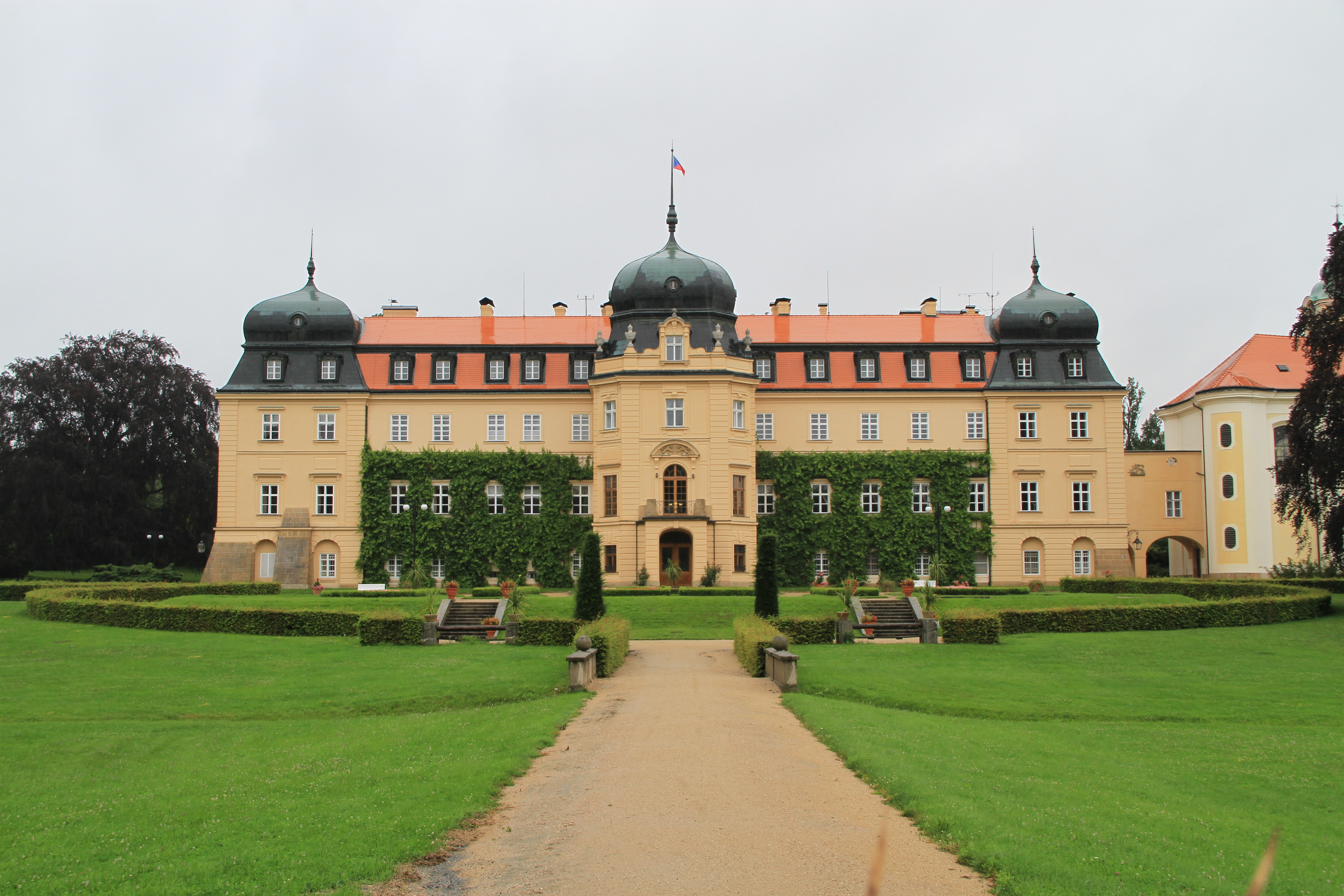 Castle Lany